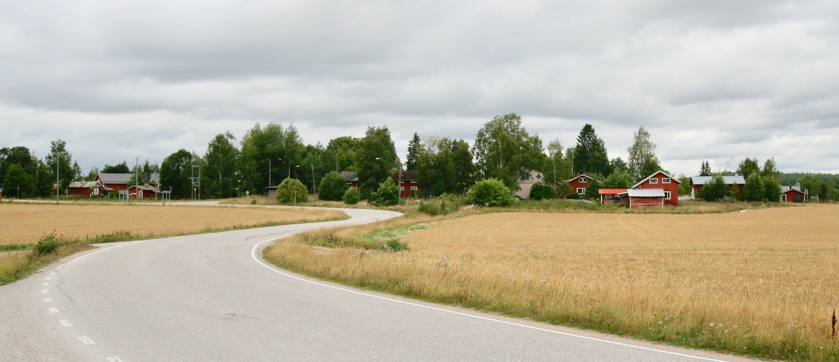 Heinämaa village in Orimattila, Finland.